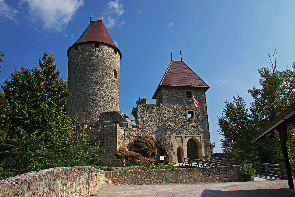 Žovnek castle (German: Sanneck) is being successfully restored, this is how it looked like in 2016.